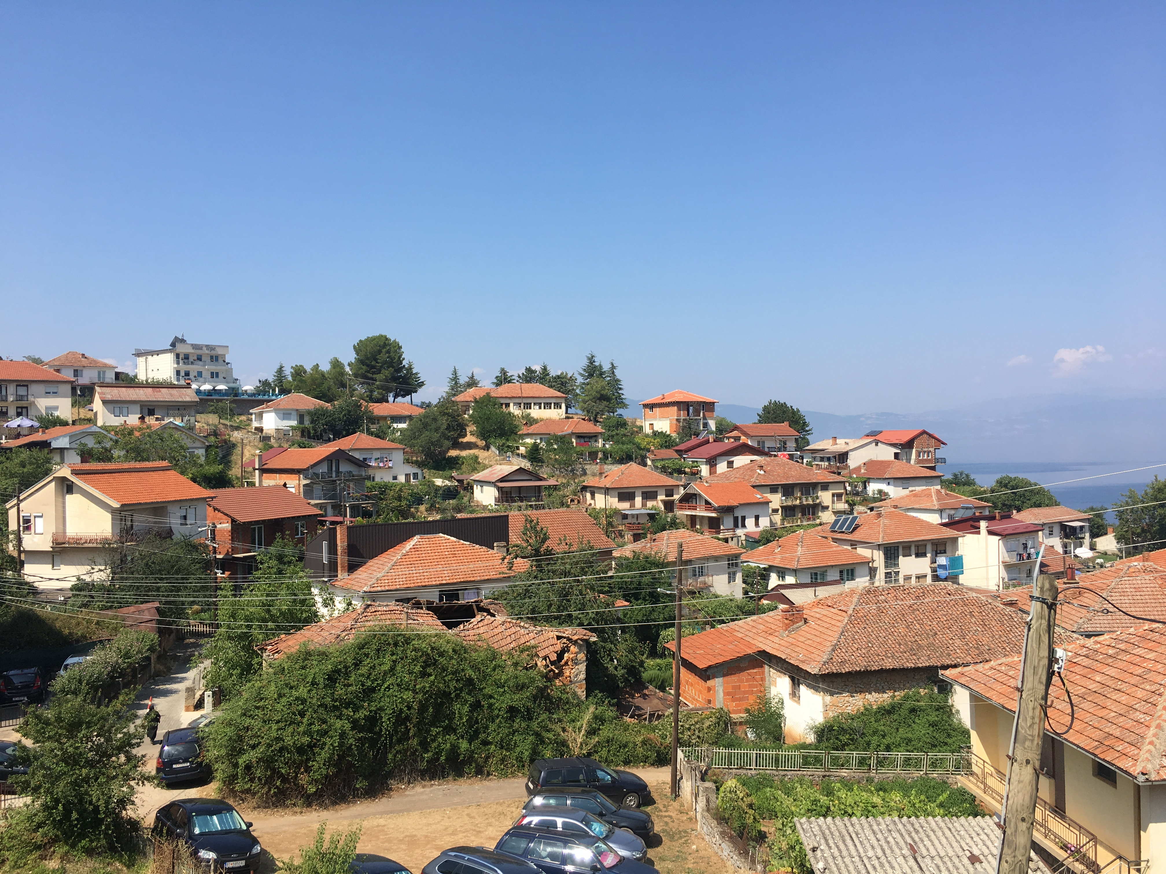 A view of the village of Trpejca